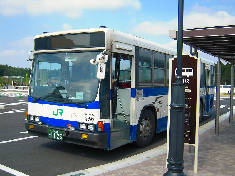 JR bus Kanto Route bus,Arakawaoki station (JR Joban Kine) - Ami Premium Outlets